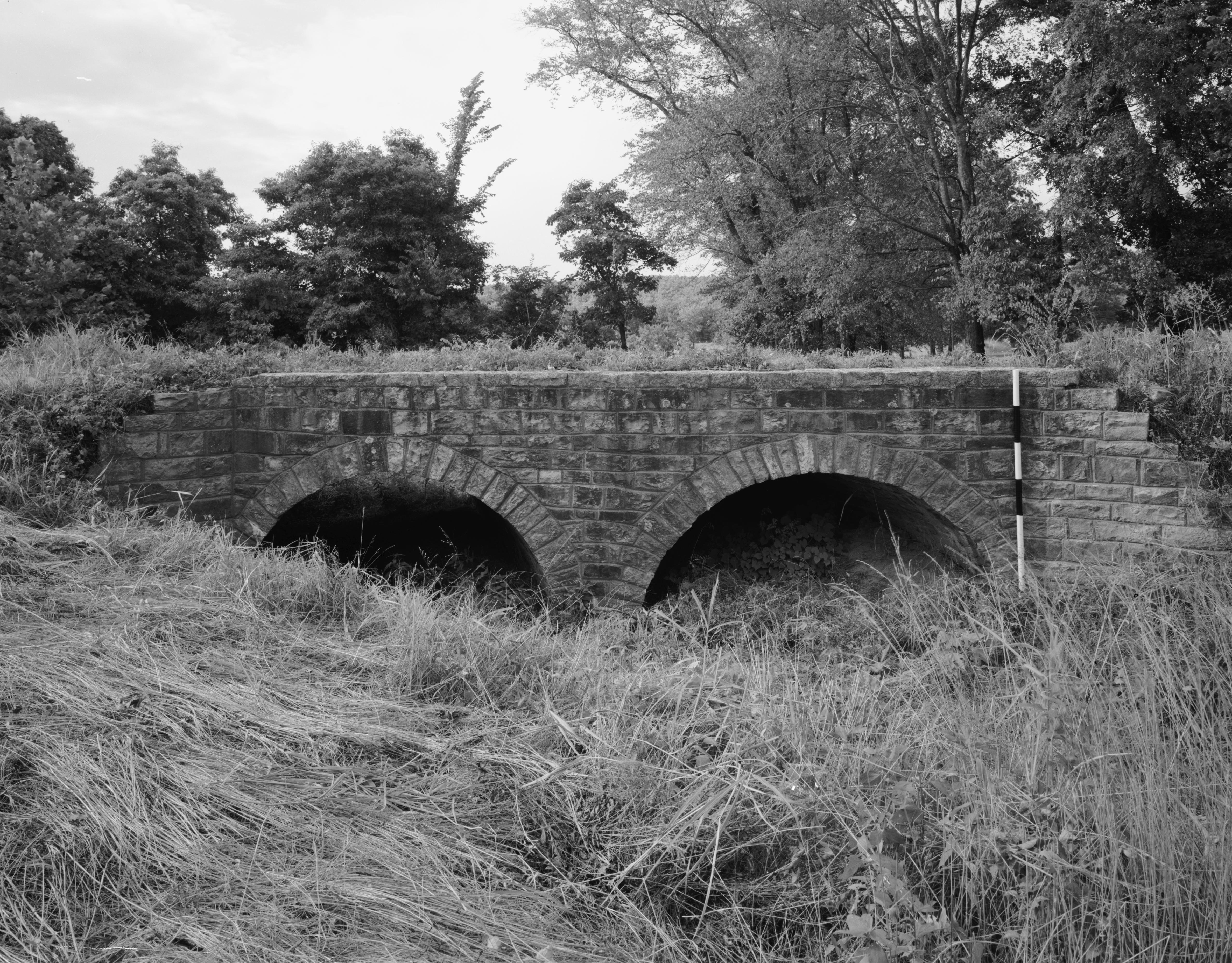 Southern side of the Milltown Bridge, which carries County Road 77 west of Milltown in Sebastian County, Arkansas, United States. Built in 1940, this closed spandrel deck stone arch bridge is listed on the National Register of Historic Places.